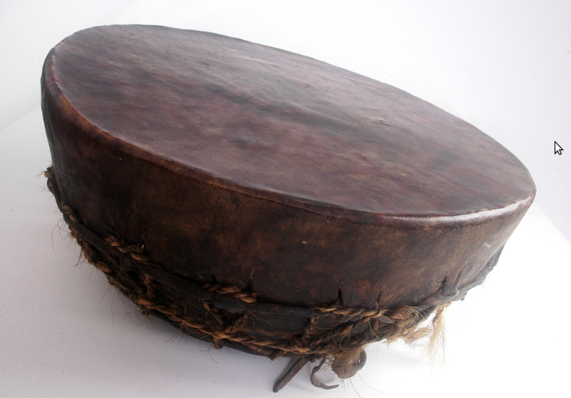 Cultrun. Collection of Museo Azzarini, Universidad Nacional de La Plata